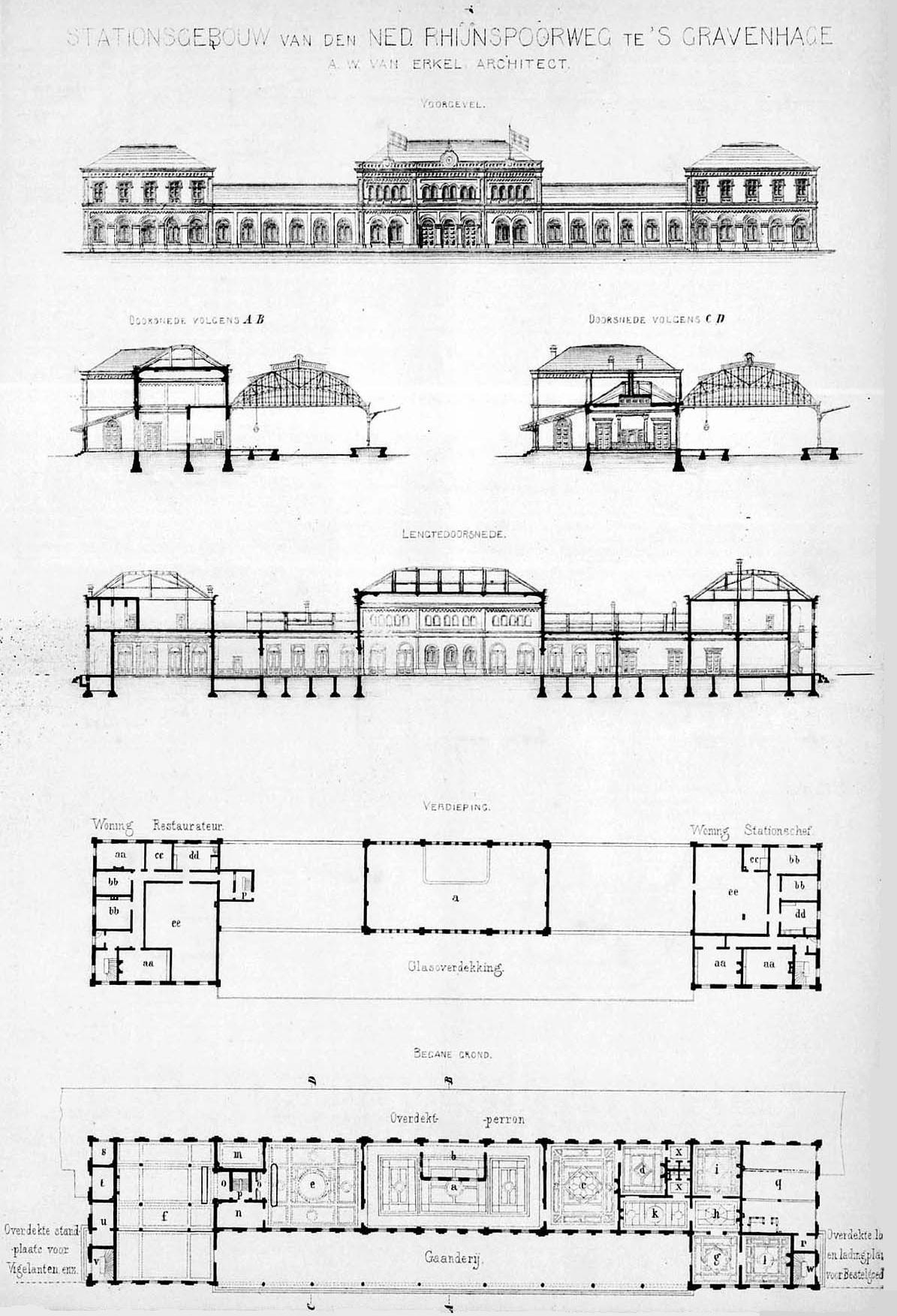 A.W. van Erkel (architect). Railway station Den Haag Staatsspoor, The Hague, façade, sections, plans.